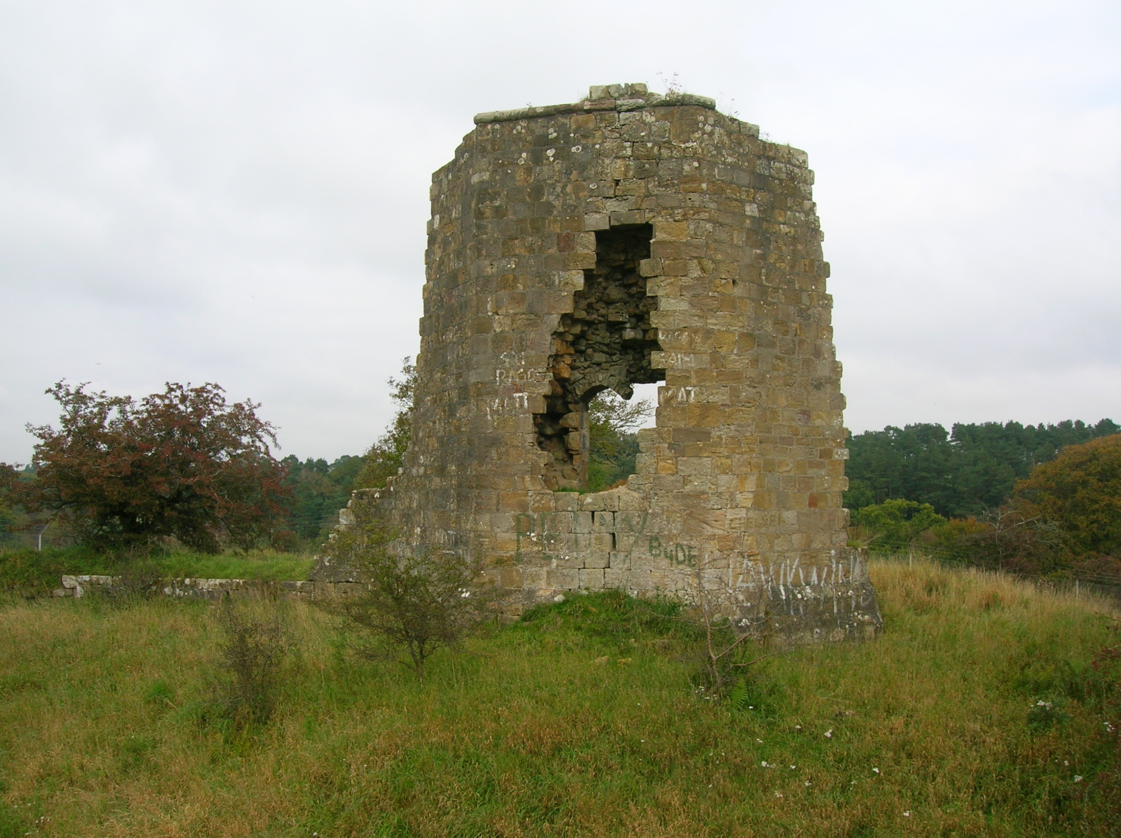 A view of the ruins of Terringzean Castle from the west, Cumnock, East Ayrshire, Scotland